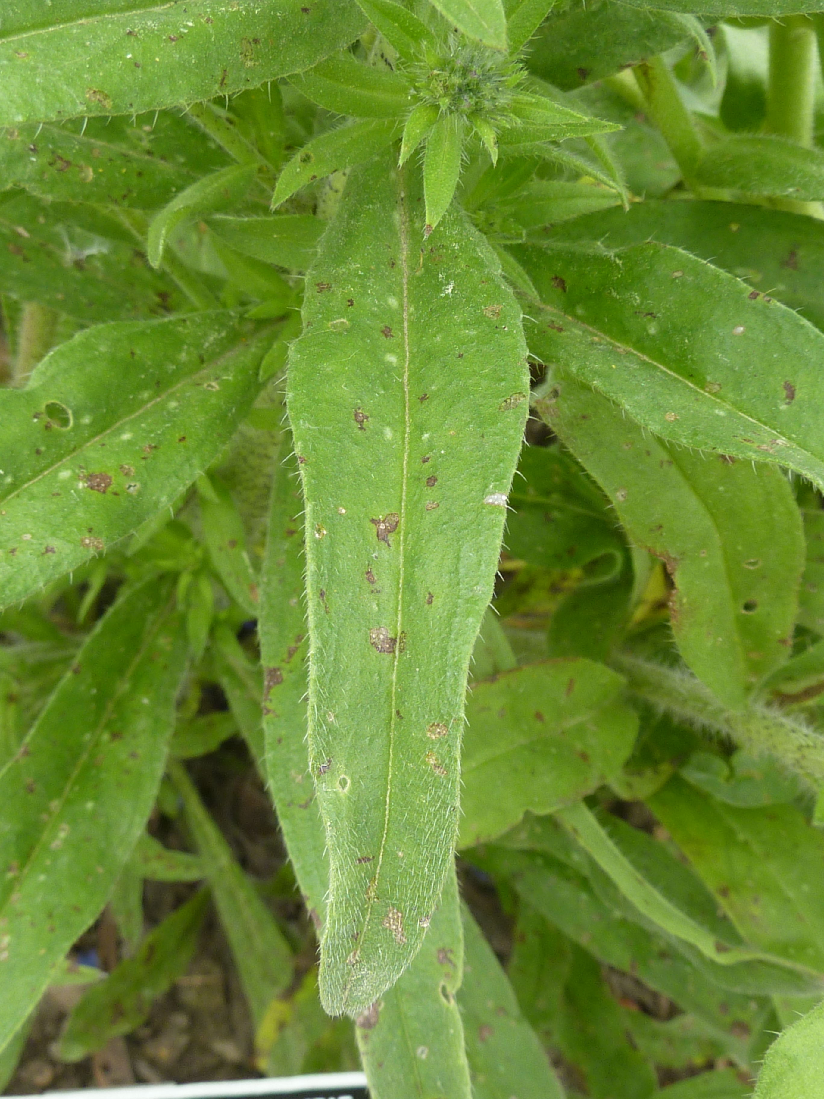 Taken in the Cambridge University Botanic Garden